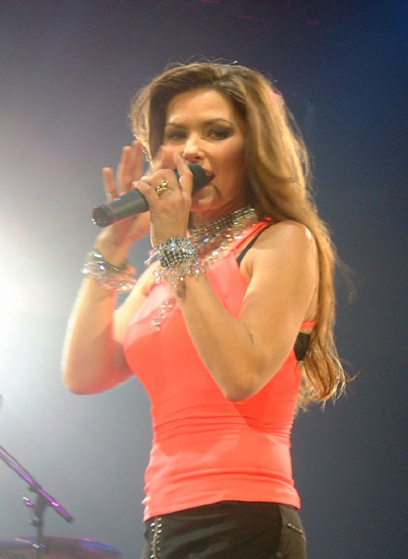 Shania Twain, live in Wembley, UK